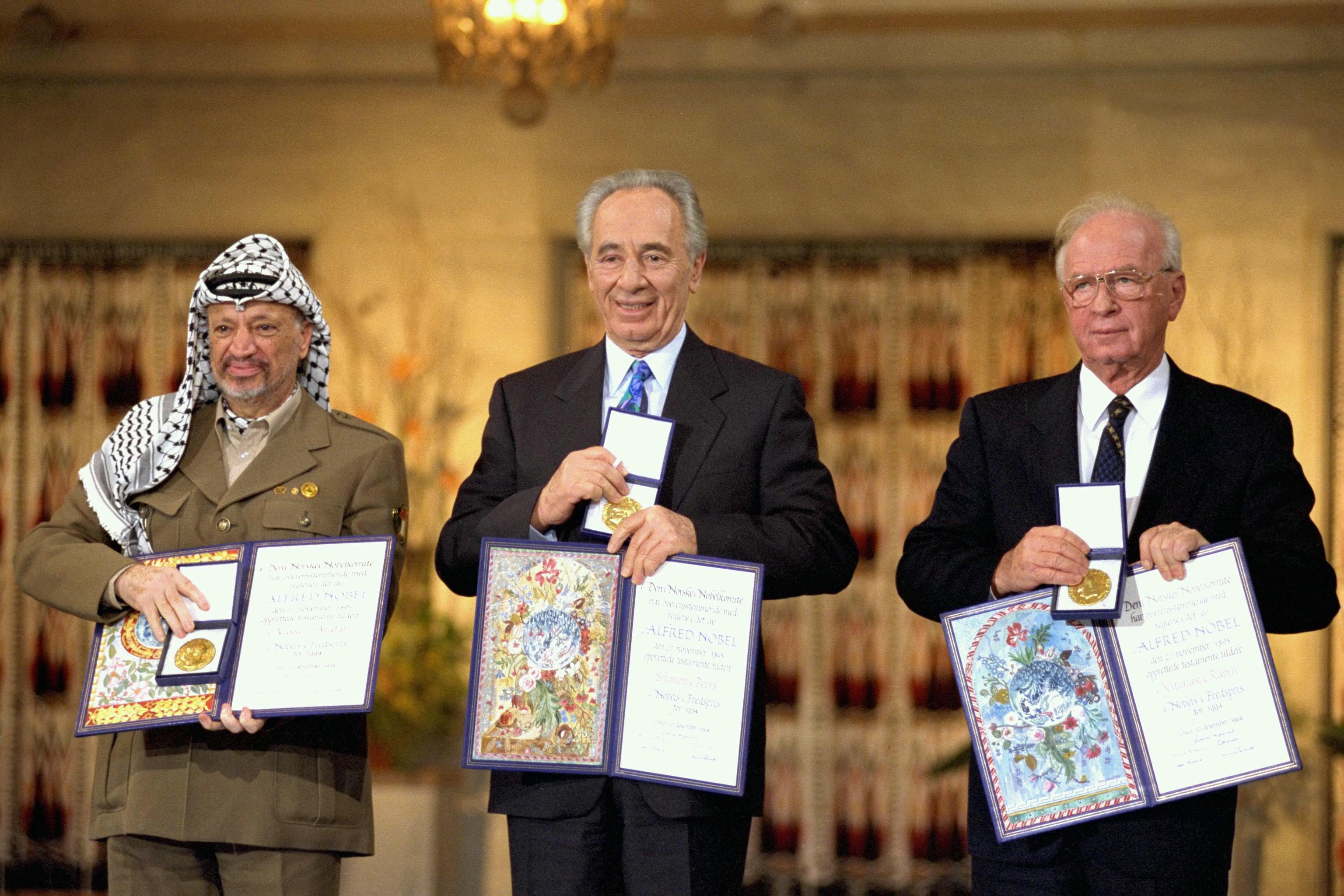 The Nobel Peace Prize laureates for 1994 in Oslo. From left to right: PLO Chairman Yasser Arafat, Israeli Foreign Minister Shimon Peres, Israeli Prime Minister Yitzhak Rabin